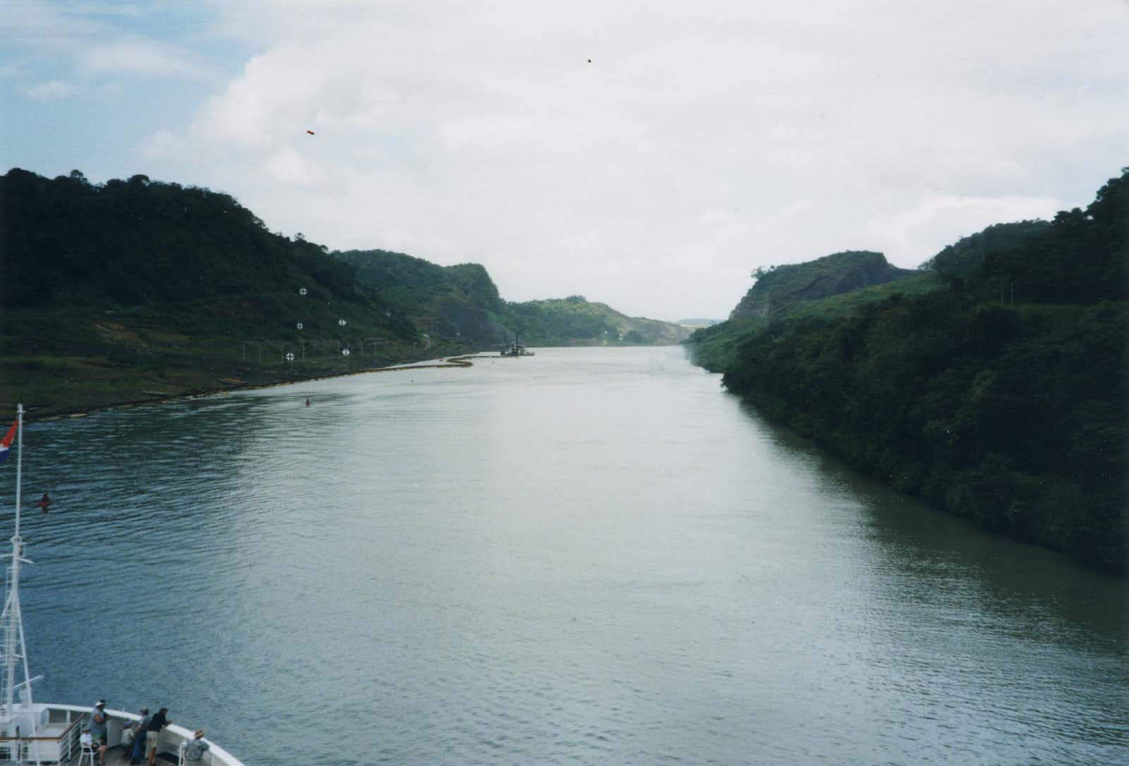 Panama Canal approaching Gaillard Cut